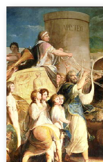 Hiero I of Syracuse - painting of James Barry